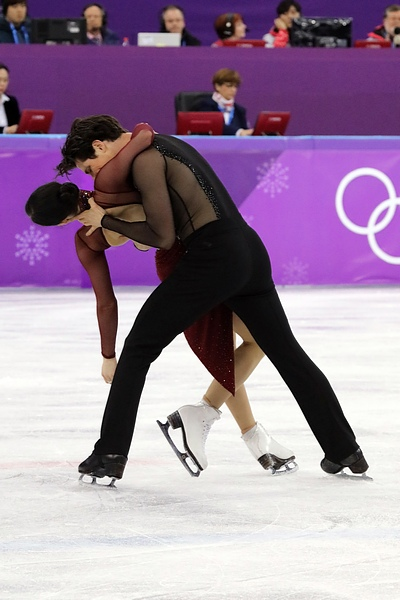 Tessa Virtue and Scott Moir at the 2018 Winter Olympic Games in PyeongChang